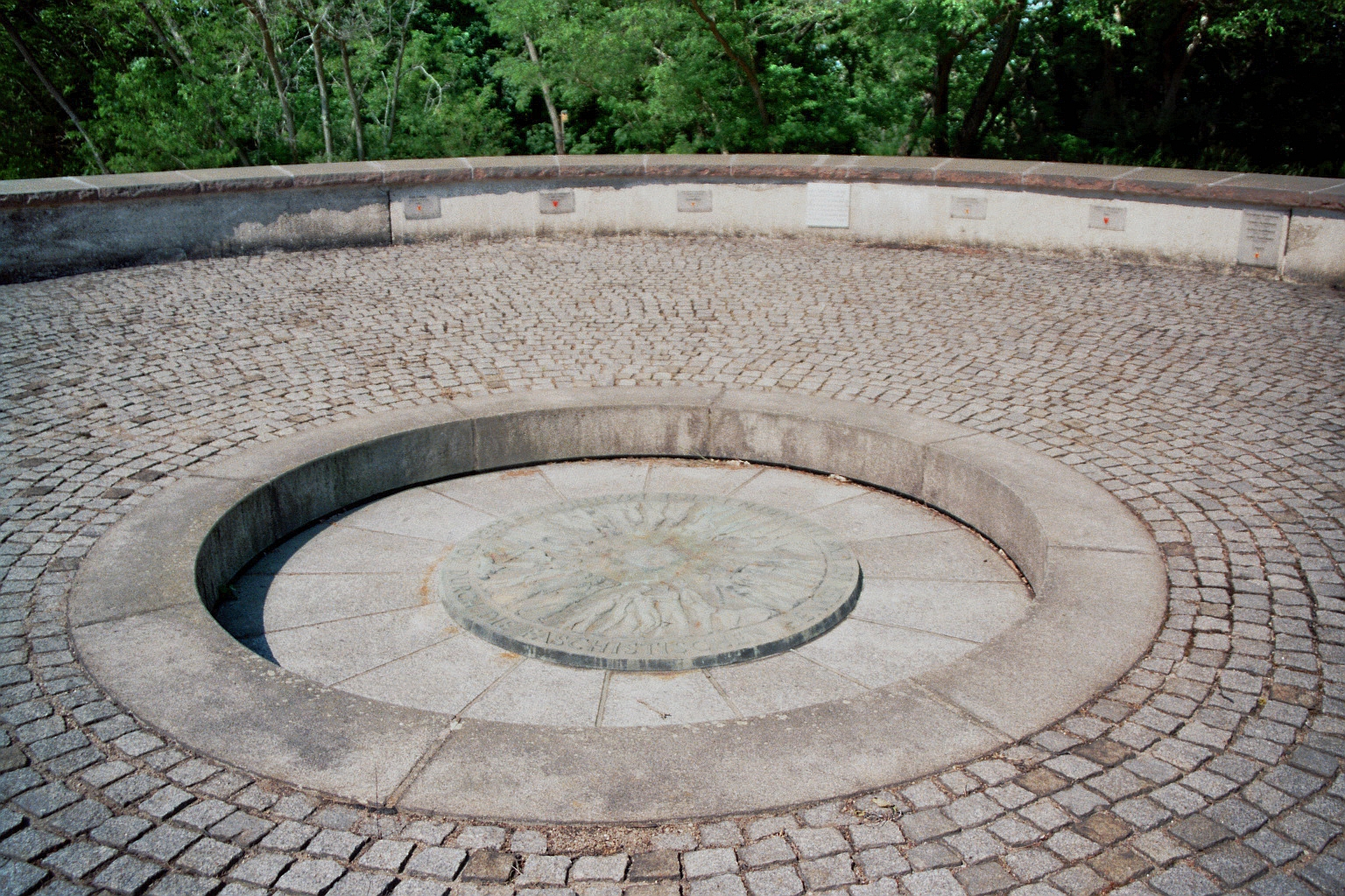 Grave of the Memorial against Fascism and War (Mahnmal gegen Faschismus und Krieg) beside the cemetery in Lieberose, Landkreis Dahme-Spreewald, Brandenburg, Deutschland. The memorial is listed as a cultural heritage monument.